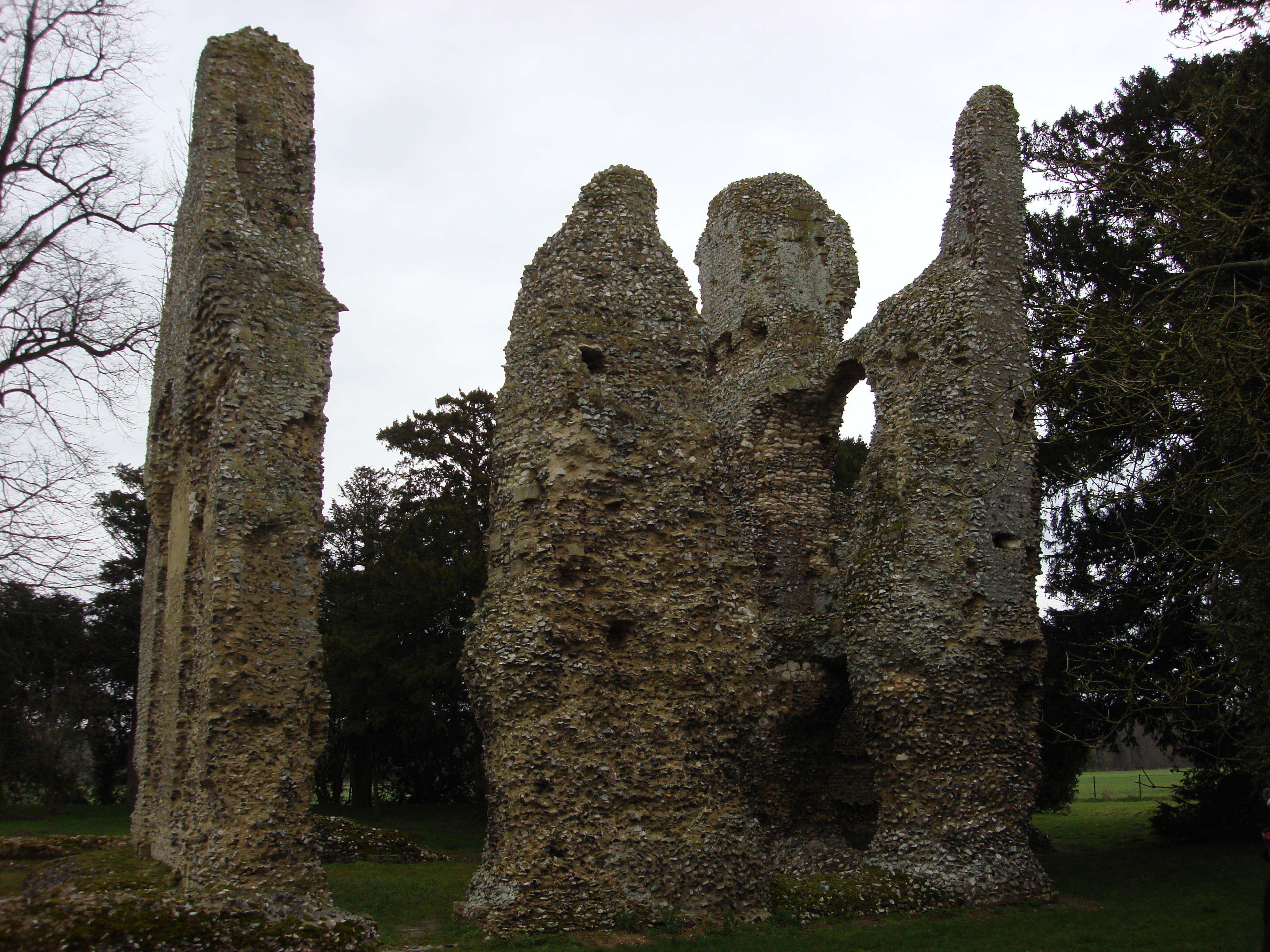 Part of the ruins of Weeting Castle, Norfolk, Great Britain